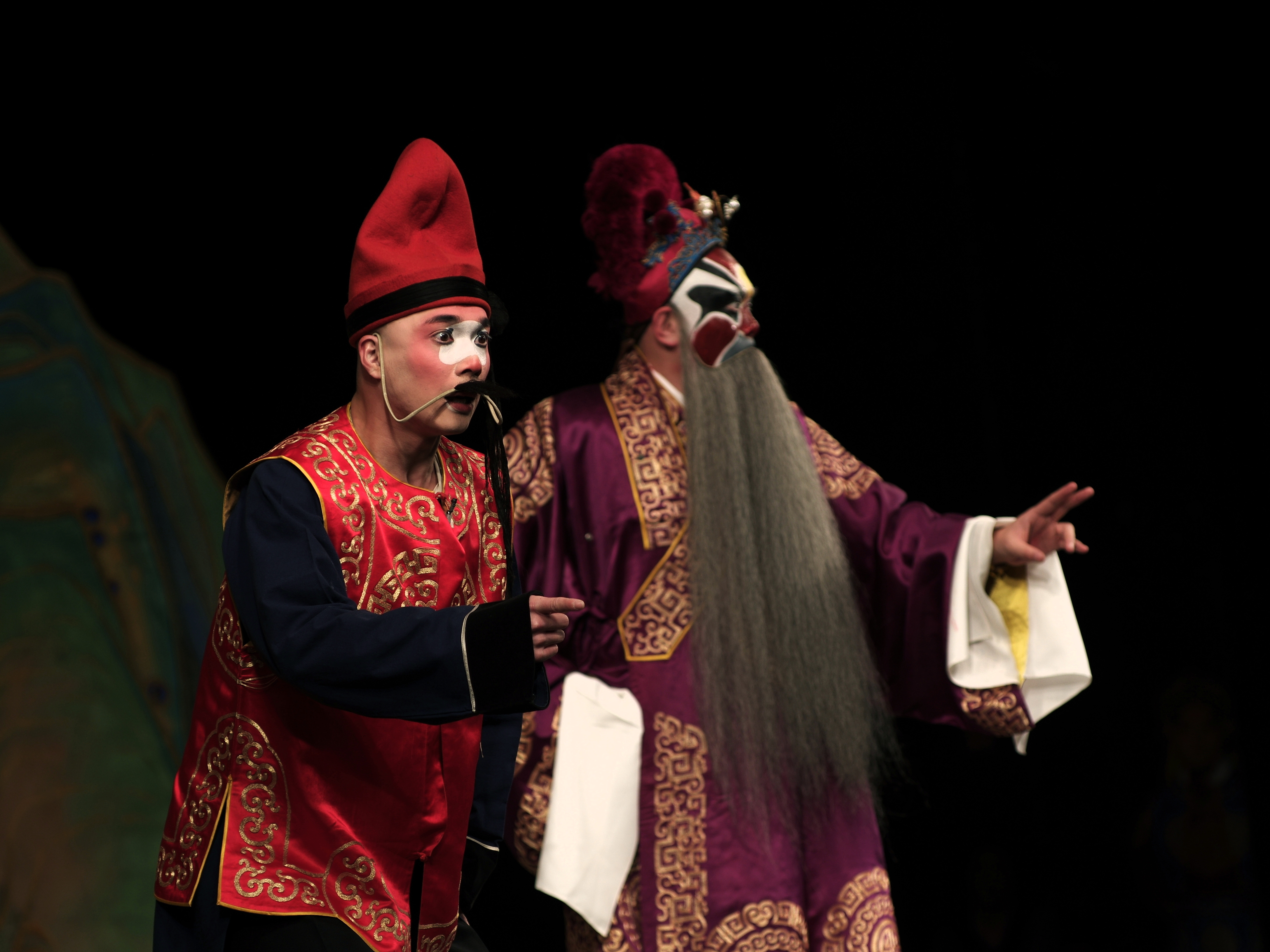 a 2014 Peking opera performance of an episode from the novel The Five Younger Gallants